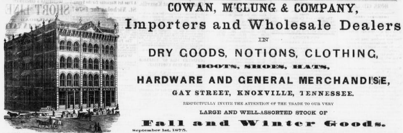 Advertisement for Cowan, McClung and Company, a wholesaler based in Knoxville, Tennessee, United States; the company's headquarters, the Fidelity Building, is depicted on the left